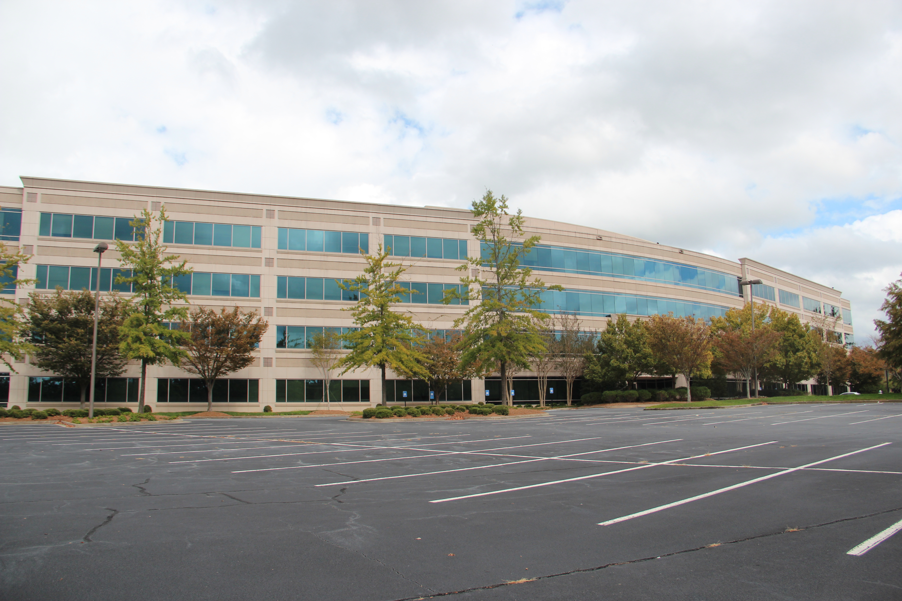 925 North Point Pkwy, Alpharetta, GA